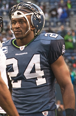 Deon Grant